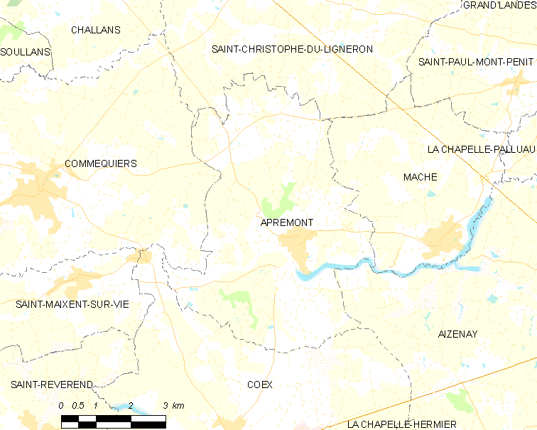 Map of French municipality Apremont